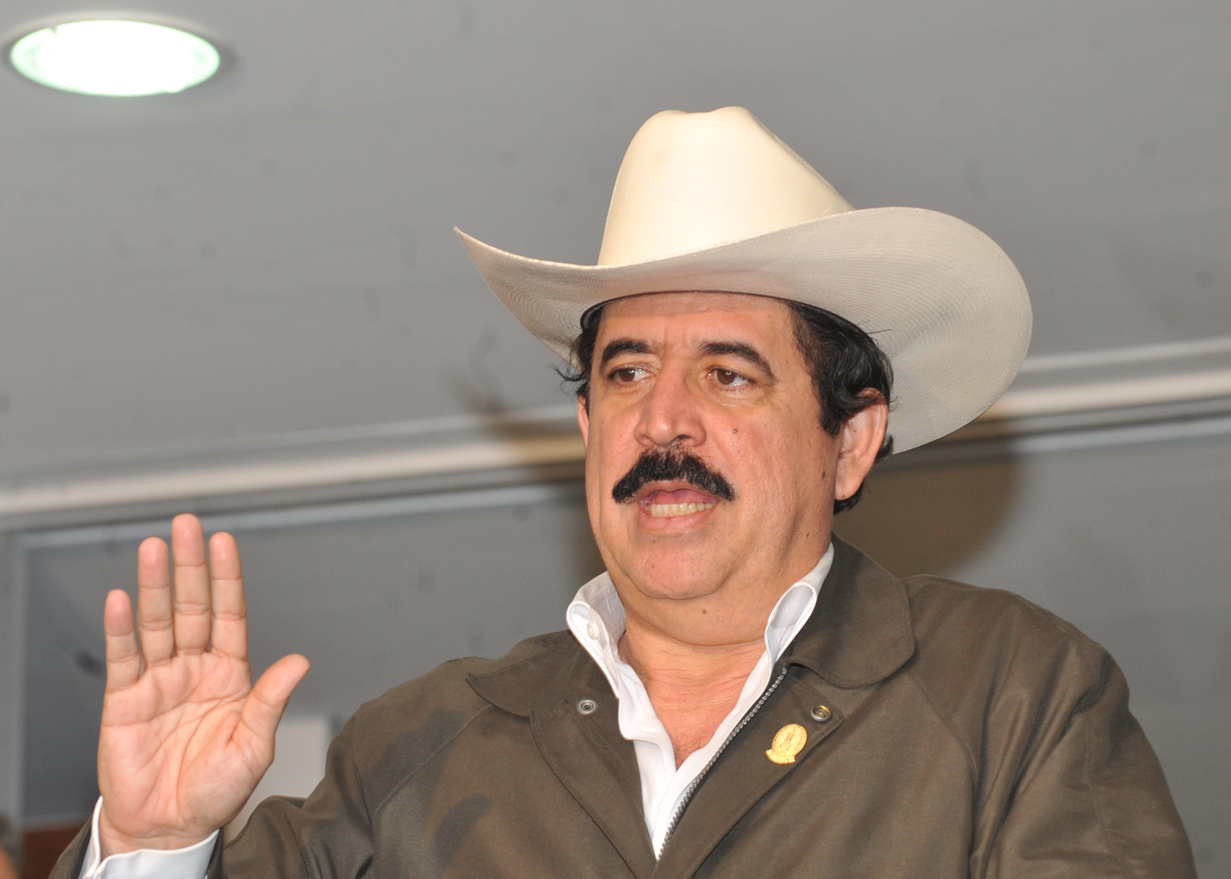 Manuel Zelaya (president of Honduras, deprived of his position) at his arrival to Brasilia in order to have an interview with Luiz Inácio Lula da Silva, president of Brasil.